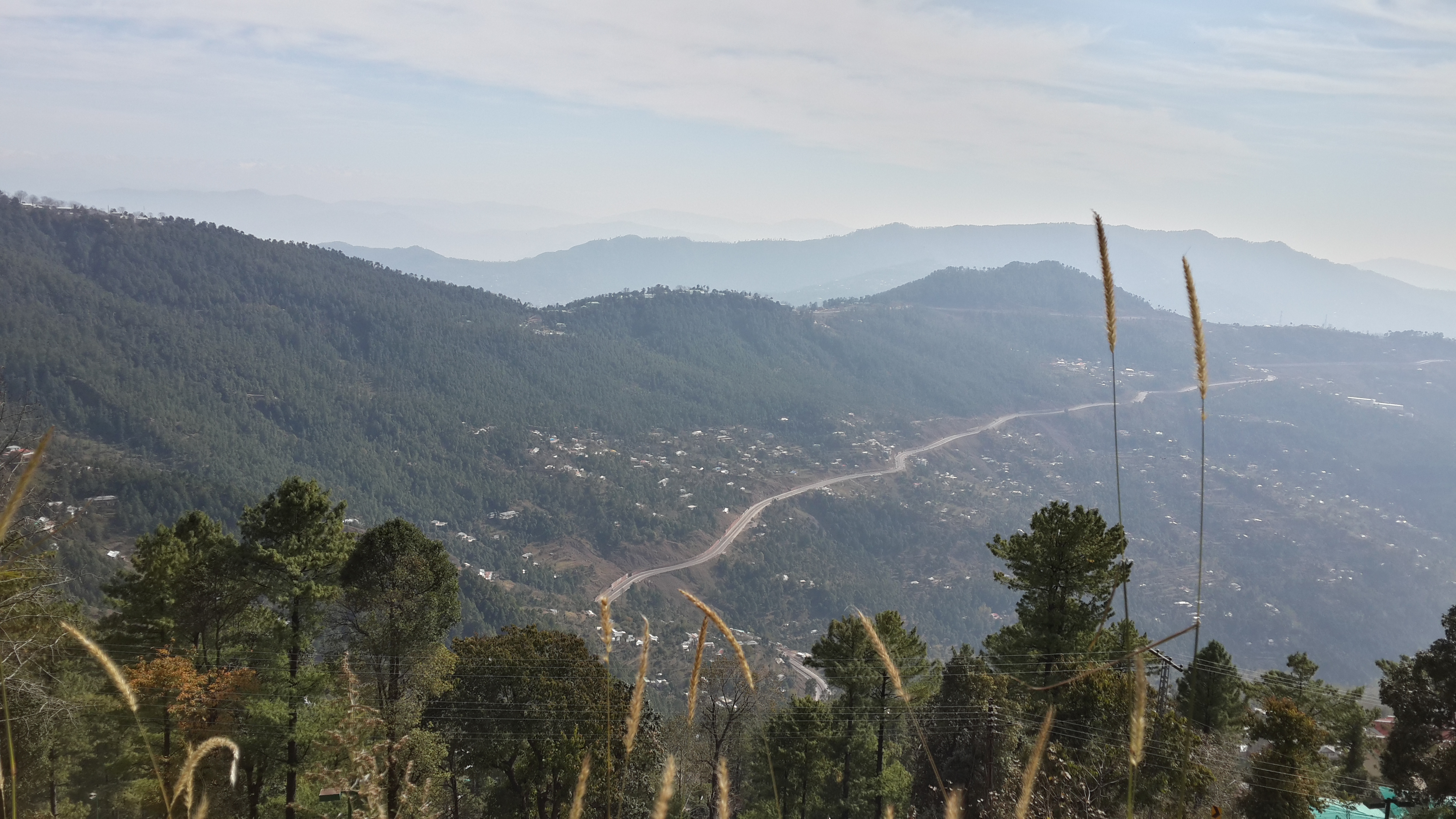 this was captured by me from a hotel i was staying in, the landscape of a road which leads to Kashmir.